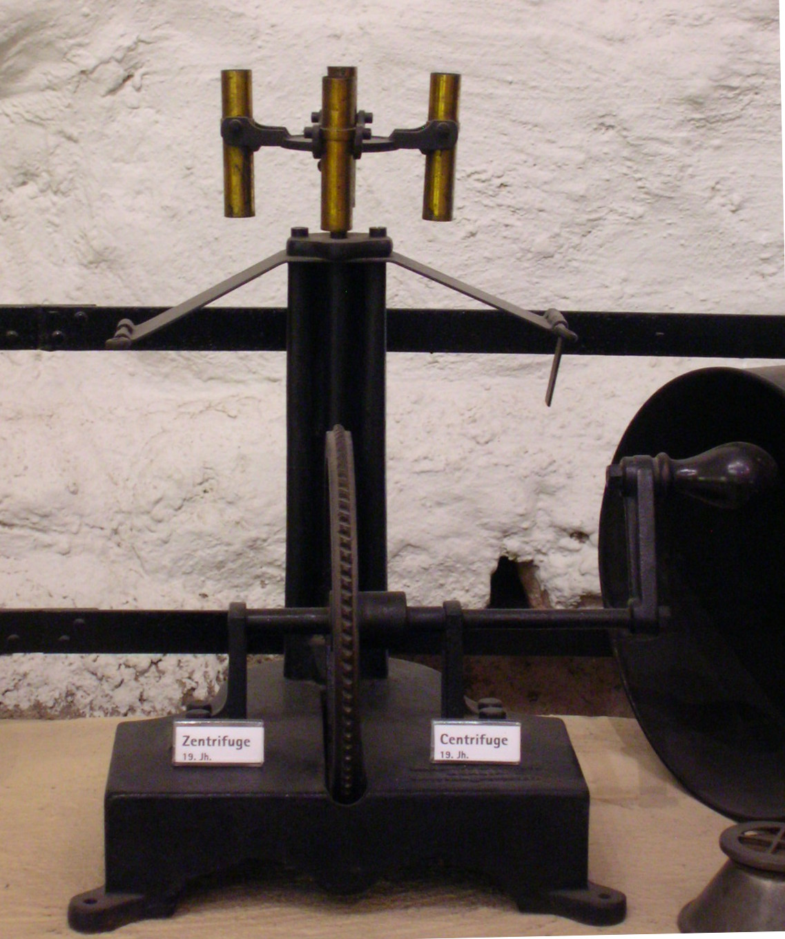 19th century centrifuge, held at the Deutsches Apotheken-Museum, Heidelberg